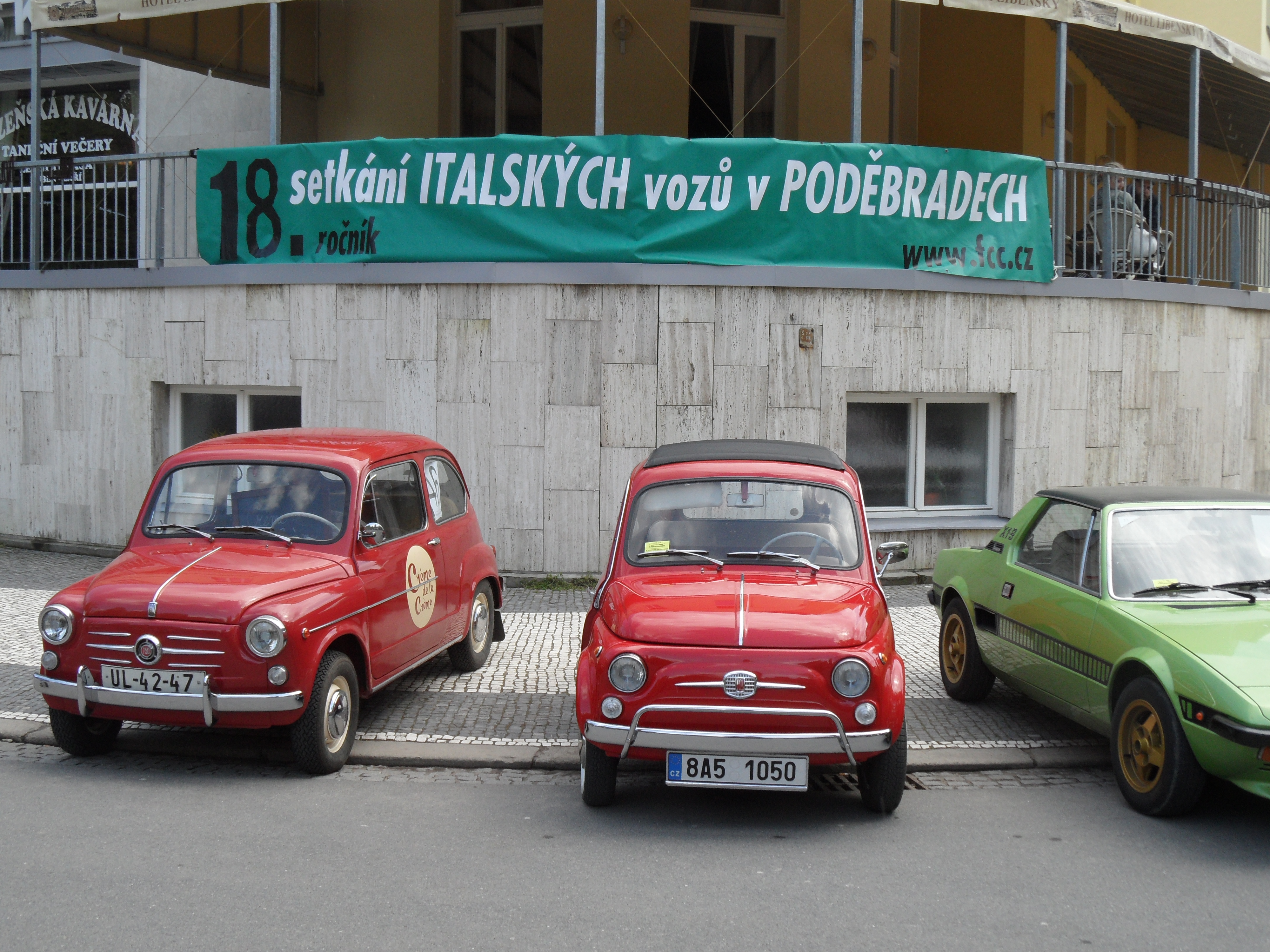 18th Meeting of Italian Car in Poděbrady. Opening (hotel Libenský in Spa Park).